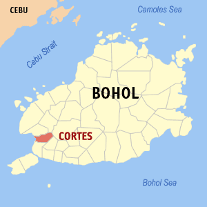 Map of Bohol showing the location of Cortes